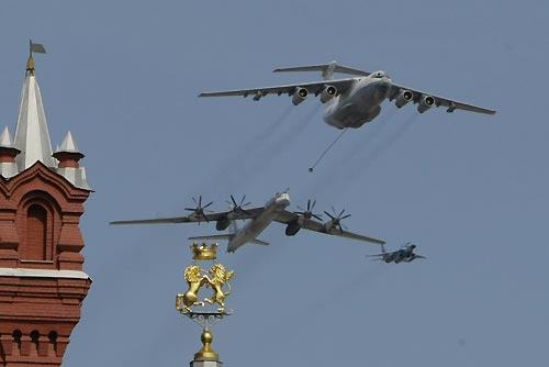 RED SQUARE, MOSCOW. Military parade marking the sixty-third anniversary of Victory in the Great Patriotic War. Ilyushin Il-78 tanker performing an aerial refueling maneuver with a Tupolev Tu-95 strategic bomber.